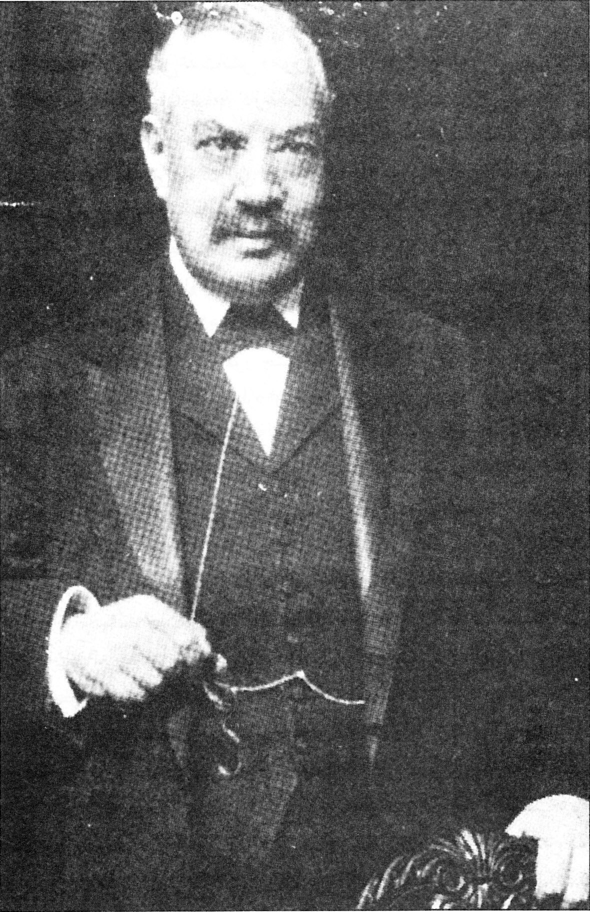 Markus Samuel